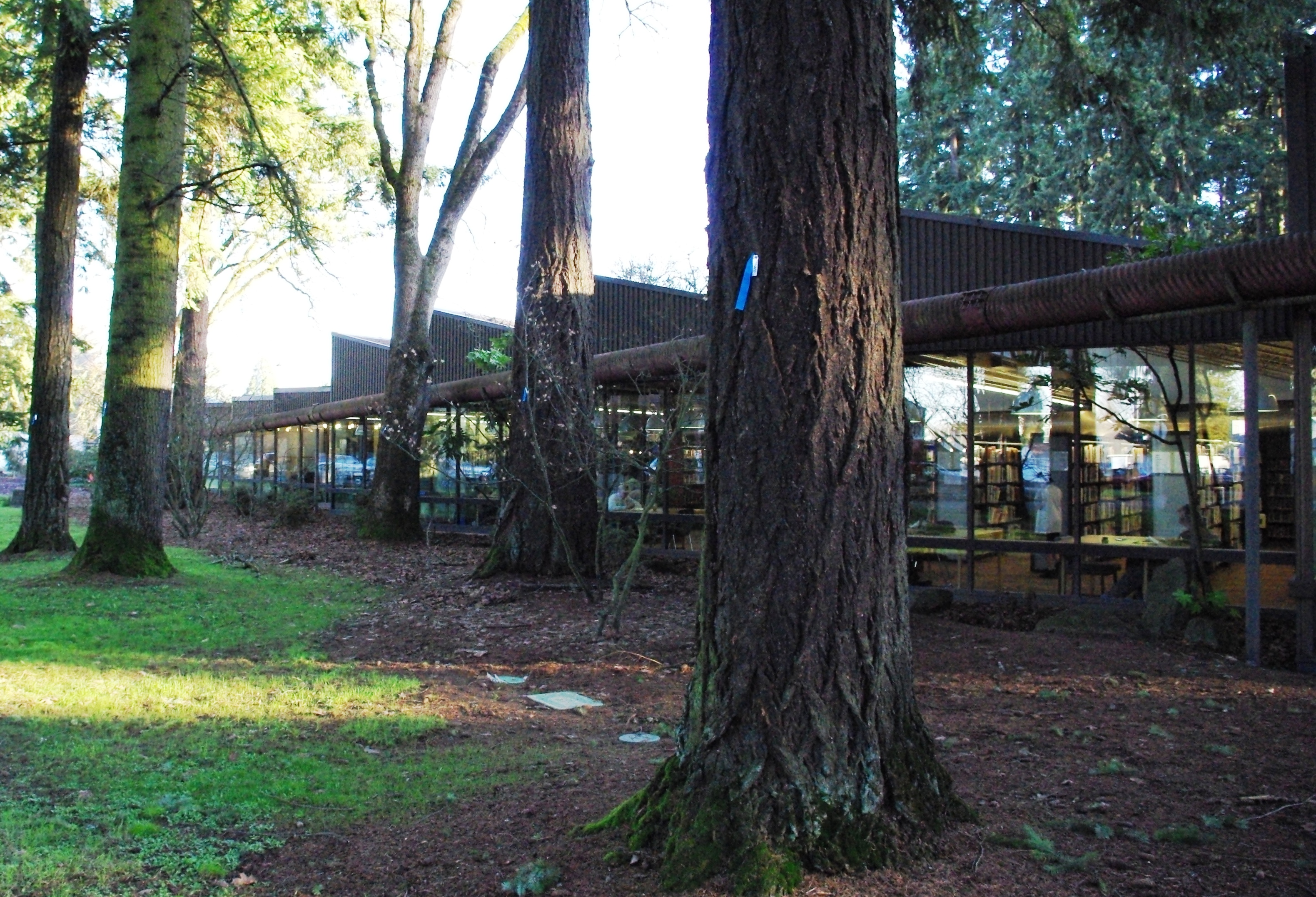 Shute Park Branch of the Hillsboro Public Library in Hillsboro, Oregon, USA